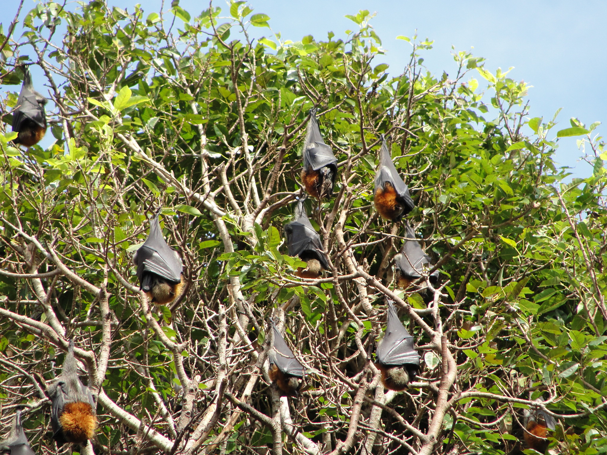 Huge colony of bats in the Royal Botanic Gardens.